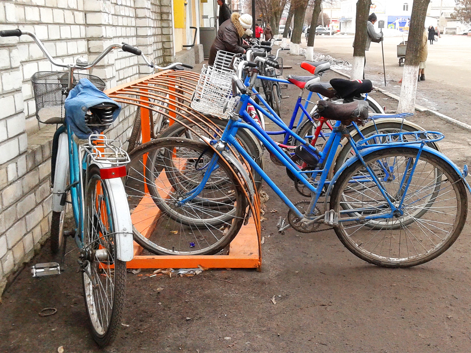 The bicycles in Starobilsk (Ukraine)